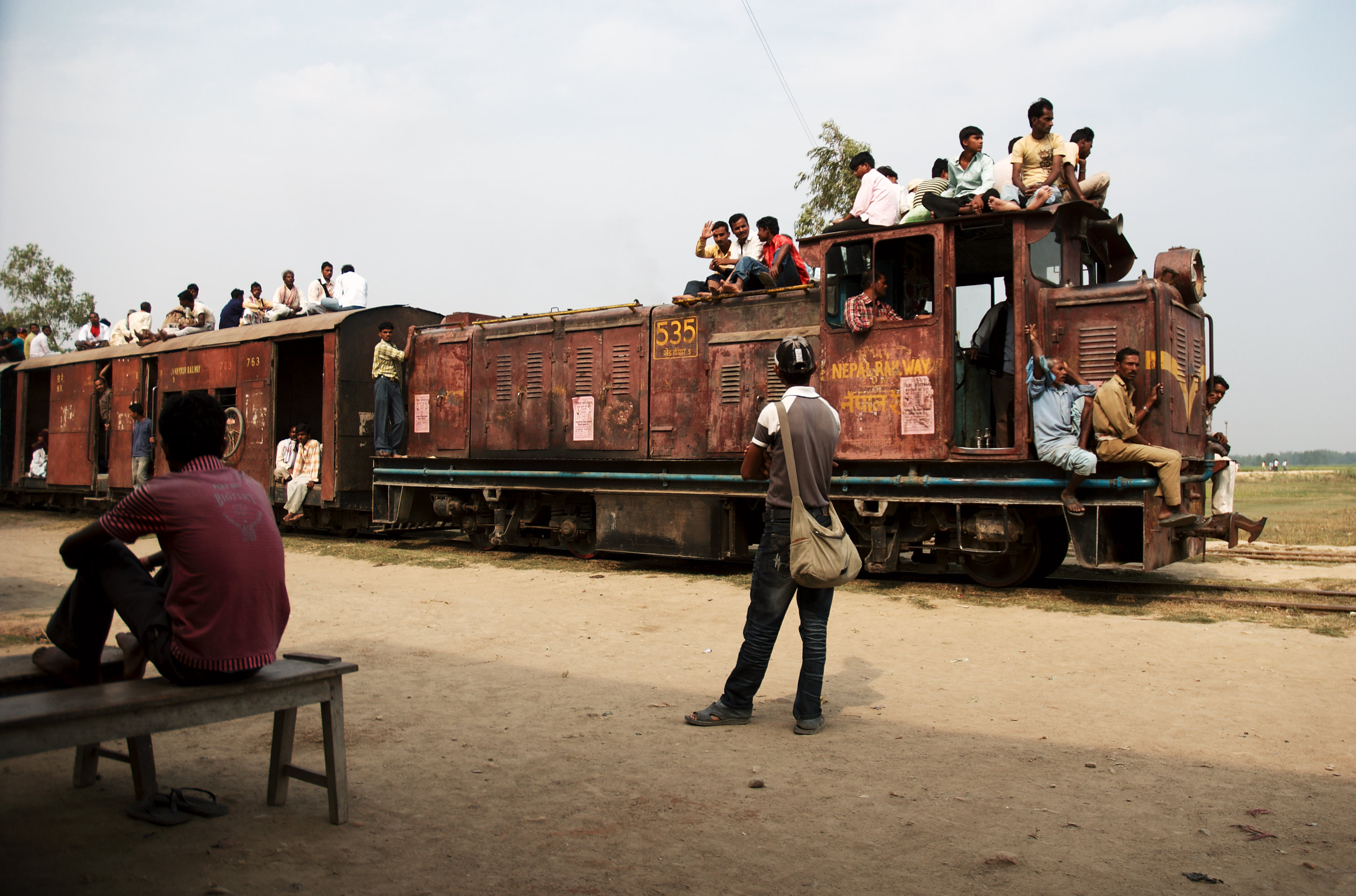 The only train in Nepal, near the border of India. The photo was taken from a train station around 8 km from Janakpur. It took the train about 30 minutes to get back to Janakpur.